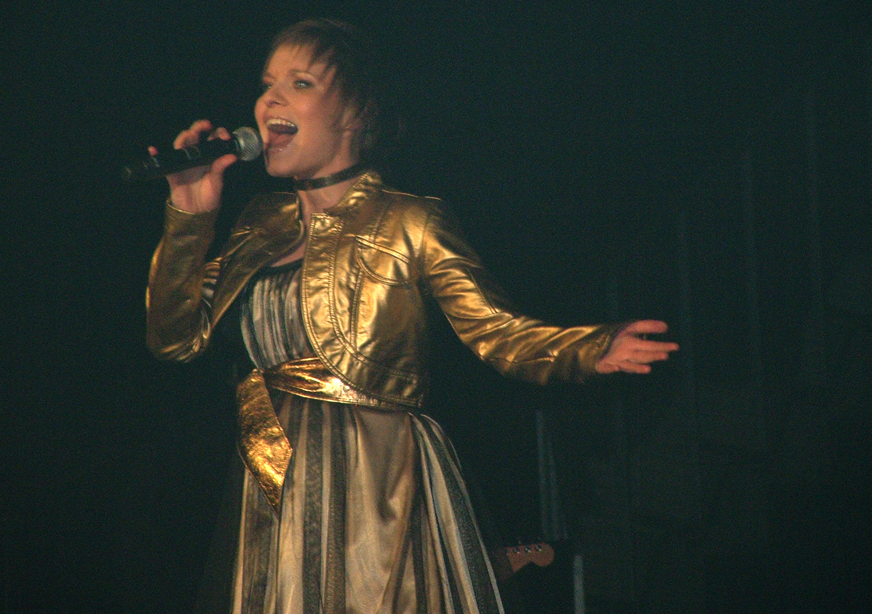 Free Souffriau at Steracteur Sterartiest Live on Stage, Lotto Arena Antwerp, February 1, 2008.